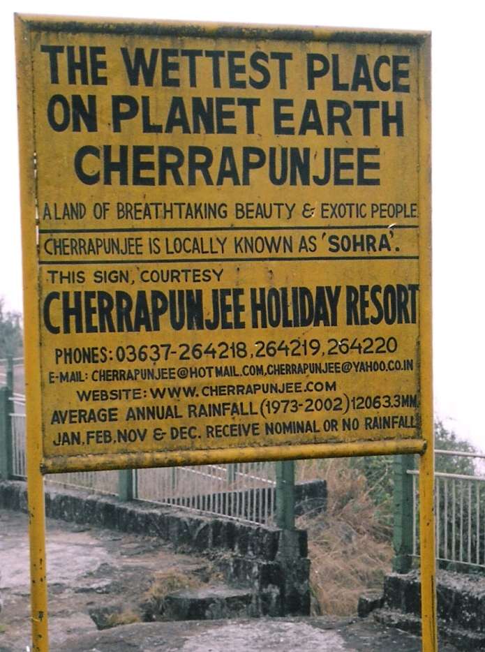 I, RMehra, took this picture myself in February 2005 in Cherrapunji.